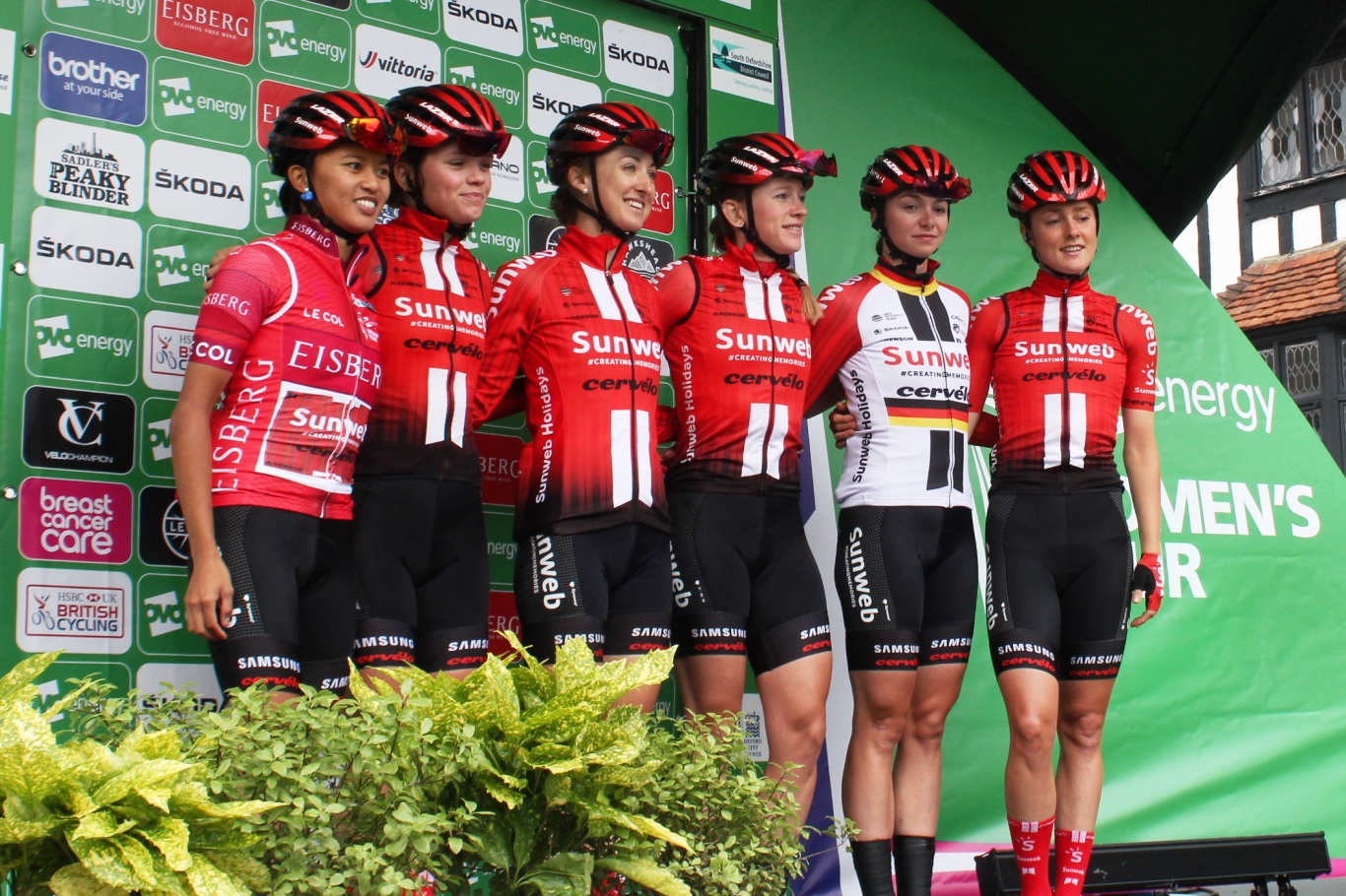 The Sunweb team ready to ride the third day of the 2019 Women's Tour. They are Coryn Rivera (on the left in the red Eisberg Sprints jersey), Susanne Andersen, Leah Kirchmann, Liane Lippert (in the white German champion's jersey), Floortje MacKaij and Julia Soek.